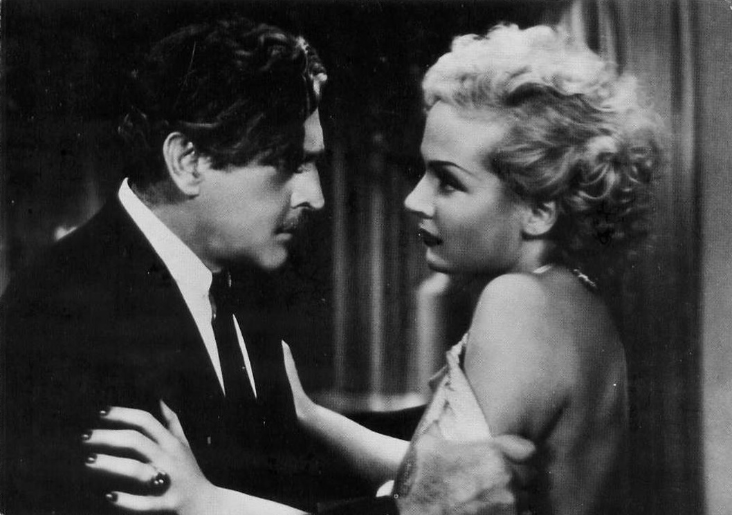 John Barrymore & Carole Lombard in 1934 screwball comedy Twentieth Century. See also film still. No copyright notice.